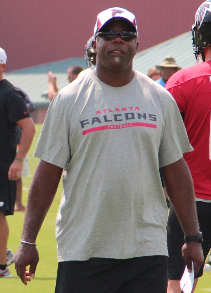 Tim Lewis at Falcons training camp, 2013